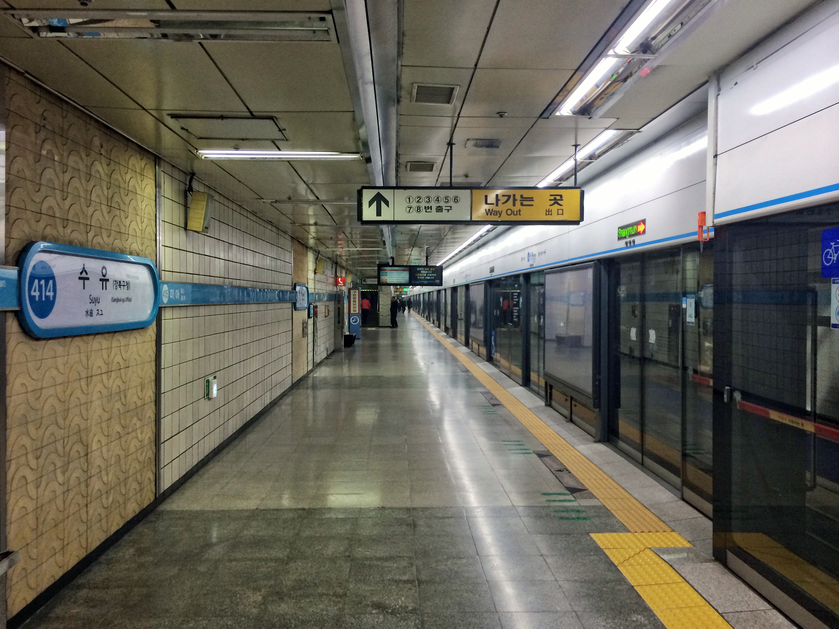 Platform of Suyu (Gangbuk-gu Office) Station